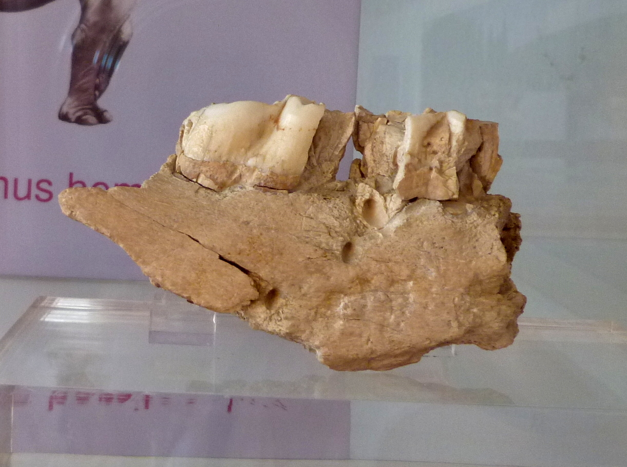 Stephanorhinus hemitoechus mandibular fragment in the permanent exhibition next to the in situ paleontological museum of Ambrona (Soria, Spain)